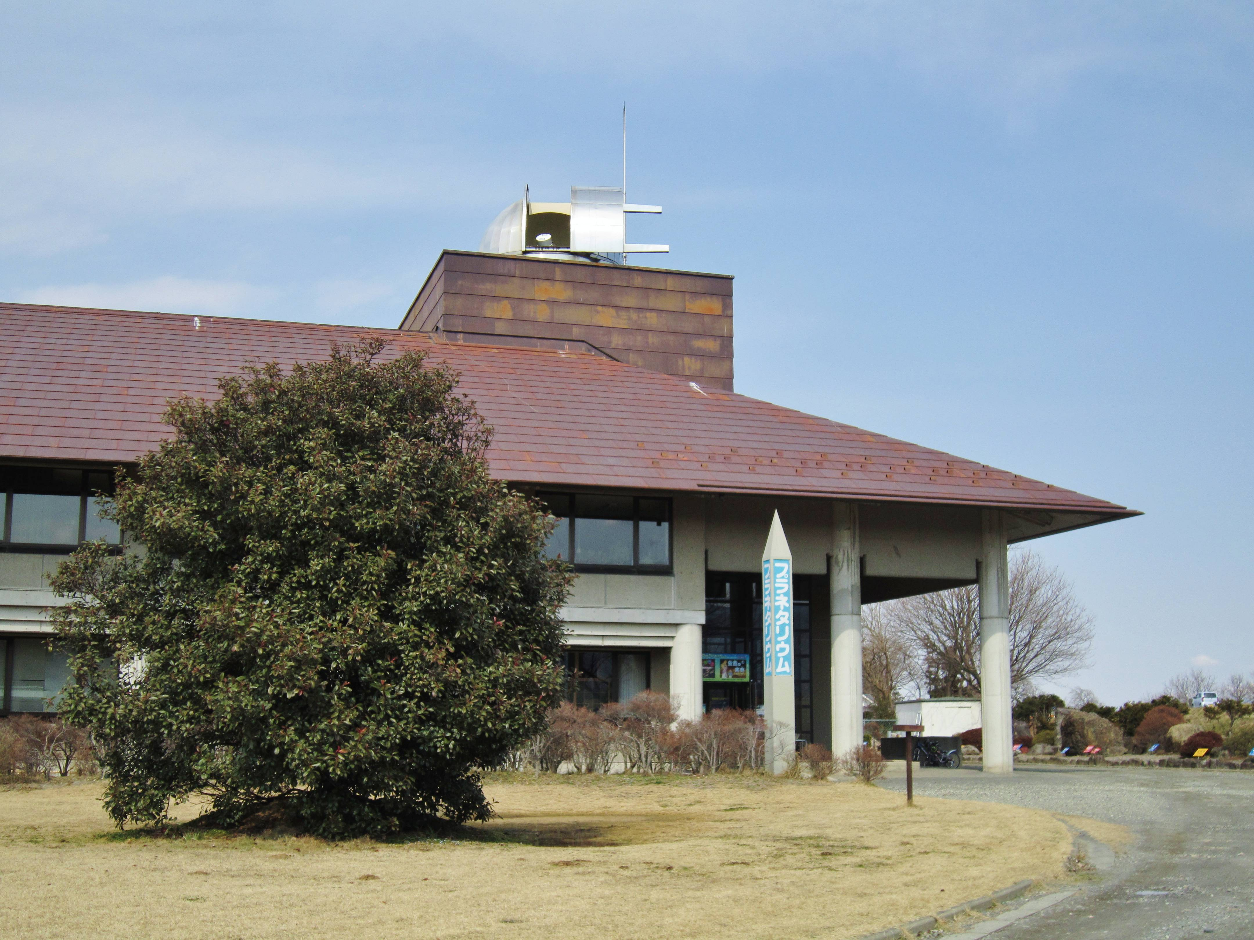 Nagano City Museum planetarium.